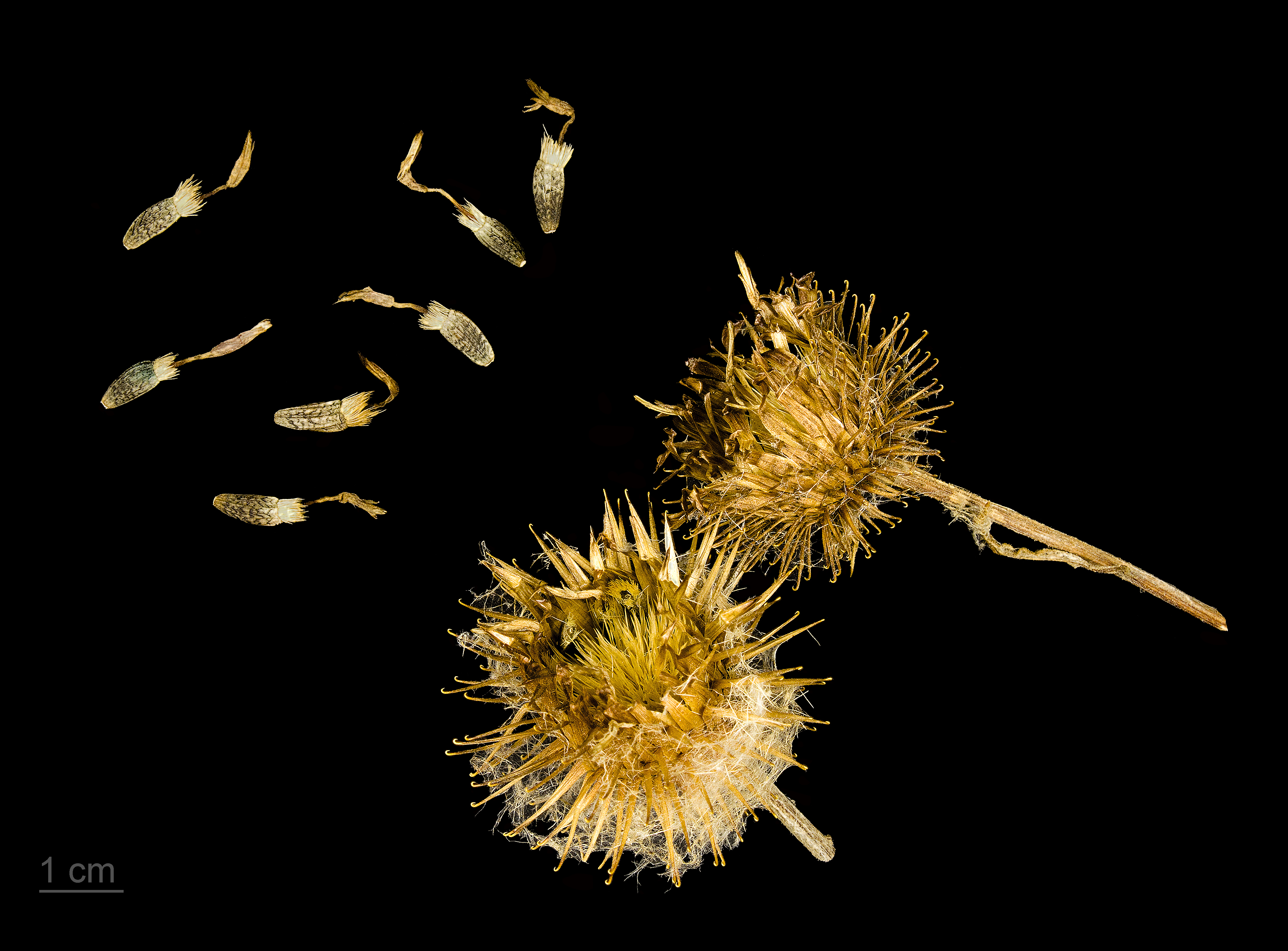 downy burdock , fruits and seeds